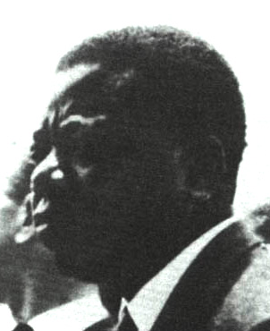 Moïse Kapenda Tshombé, Congolese politician.